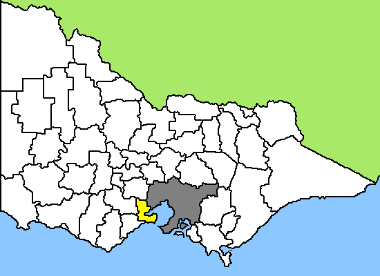 Map of Victoria/Australia, LGA of Greater Geelong City highlighted